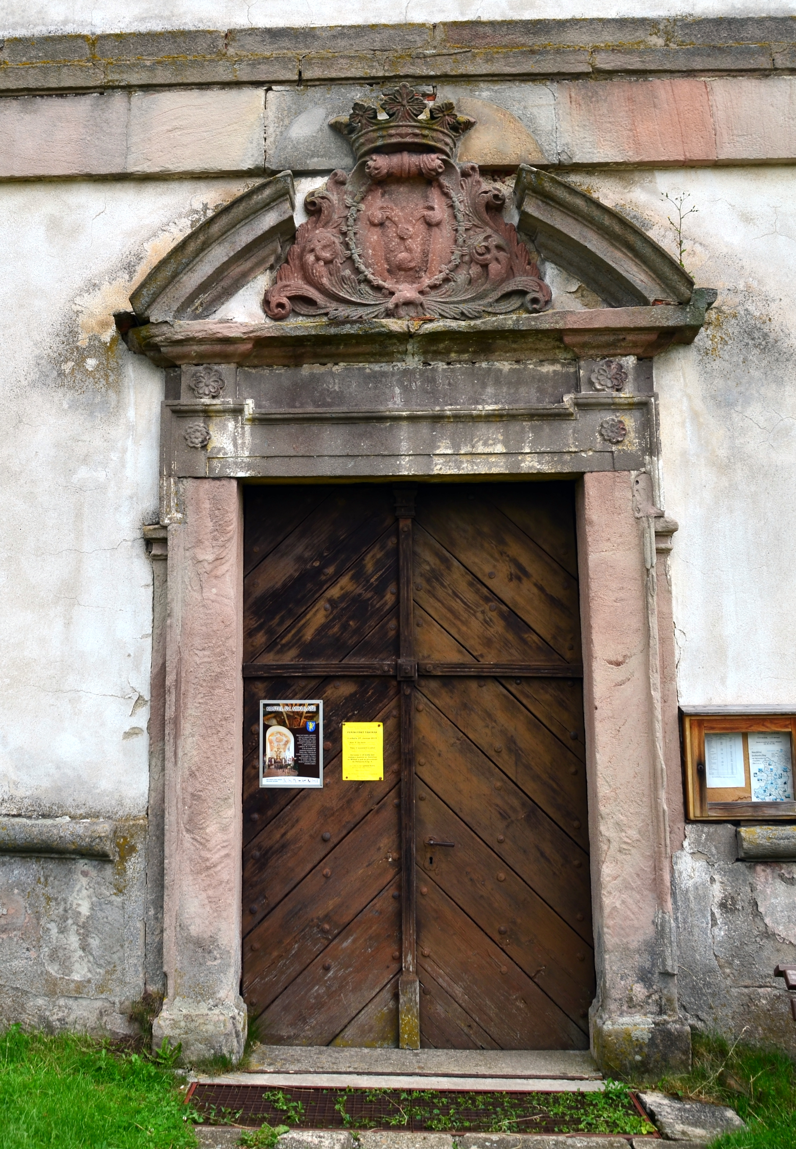 stone portal